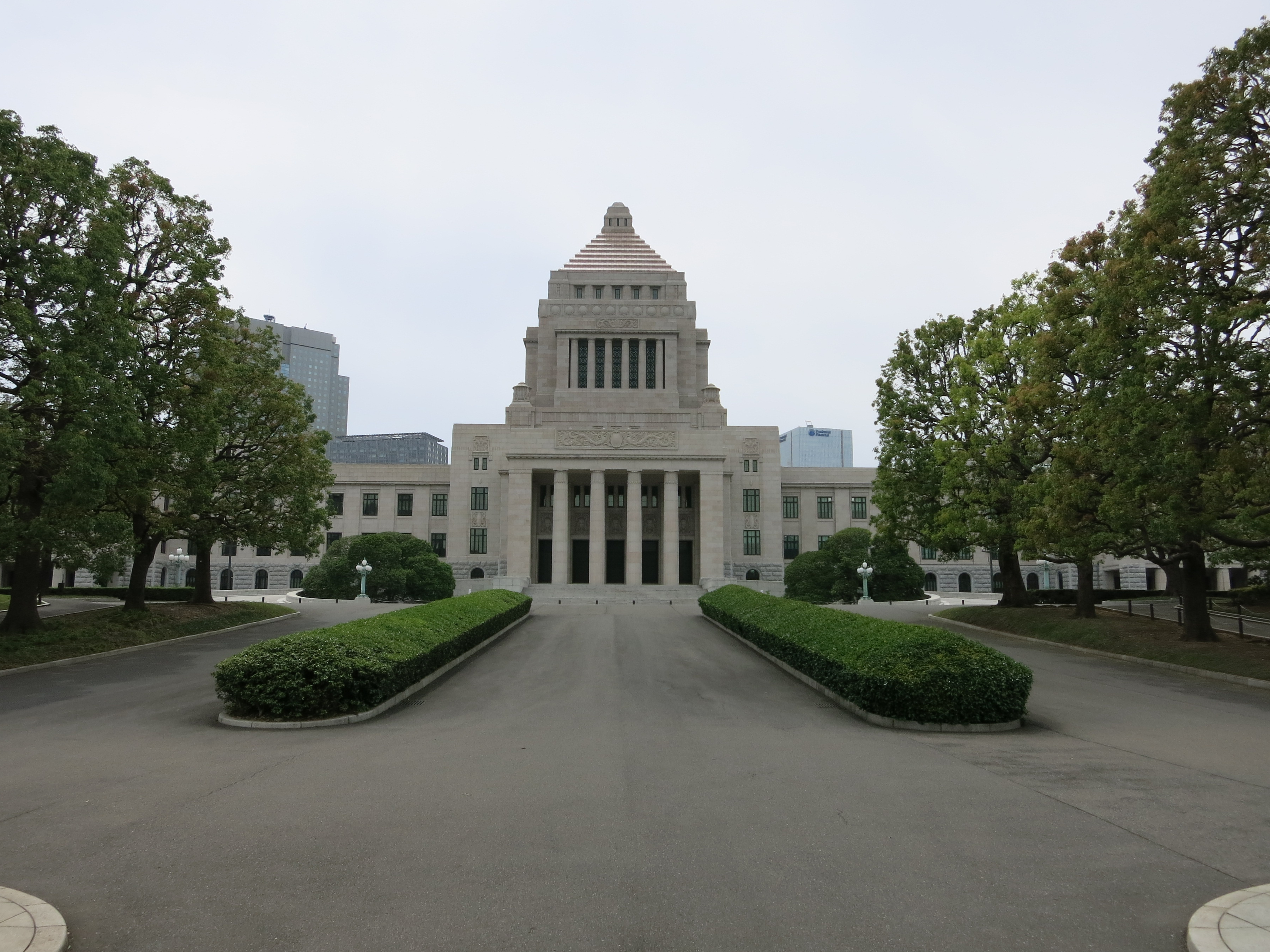 The National Diet Building. Tokyo. This photograph is taken from the front gate between the bars.